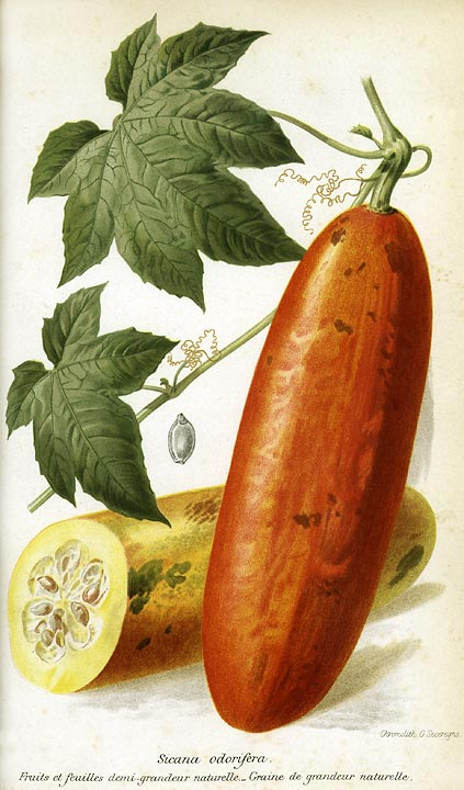 Botanical drawing of Sicana odorifera fruit and leaves